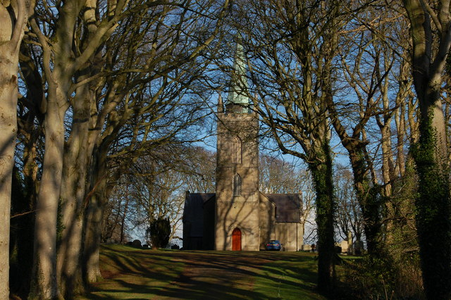 Parish church, Seaforde The CoI parish church in Seaforde was built to serve the nearby estate. The date of construction is not known but is taken as 1721. It is on the site old an ancient Catholic church.